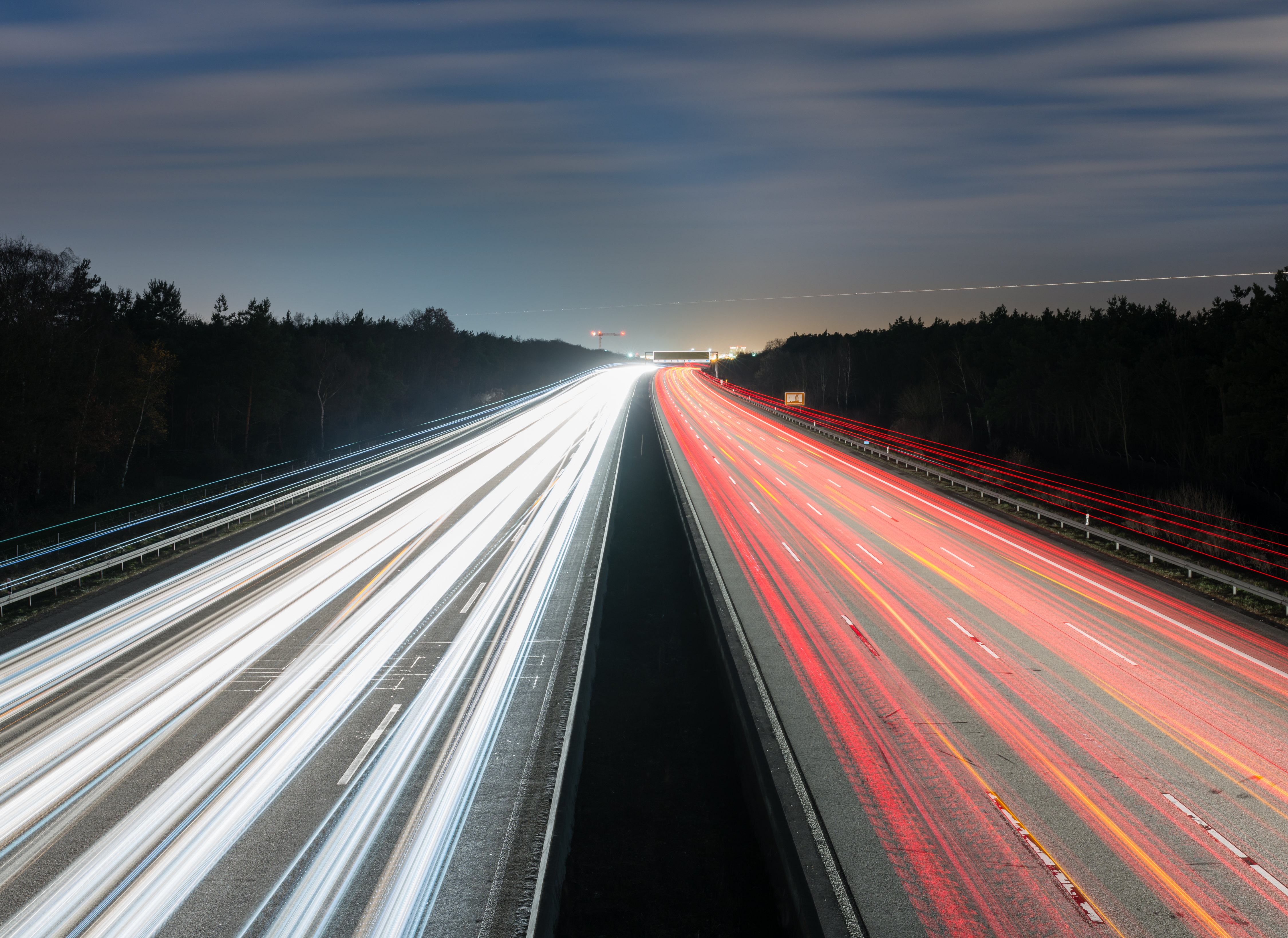 Highway A5 at the south of Frankfurt/Main with Frankfurt airport on the horizon, Hesse, Germany.